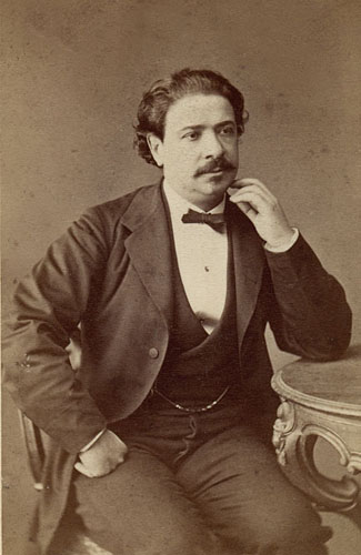 Italian organist Marco Enrico Bossi (1860—1925) pictured during touring in Russia